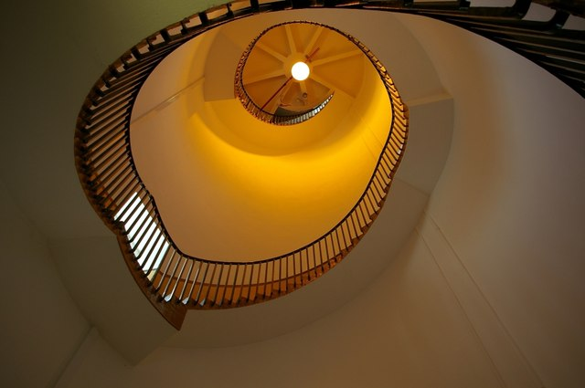 Staircase in Southwold lighthouse Southwold lighthouse was begun in 1887 by Sir James Douglass, chief engineer to Trinity House. There are 92 steps in the first stage of the ascent.